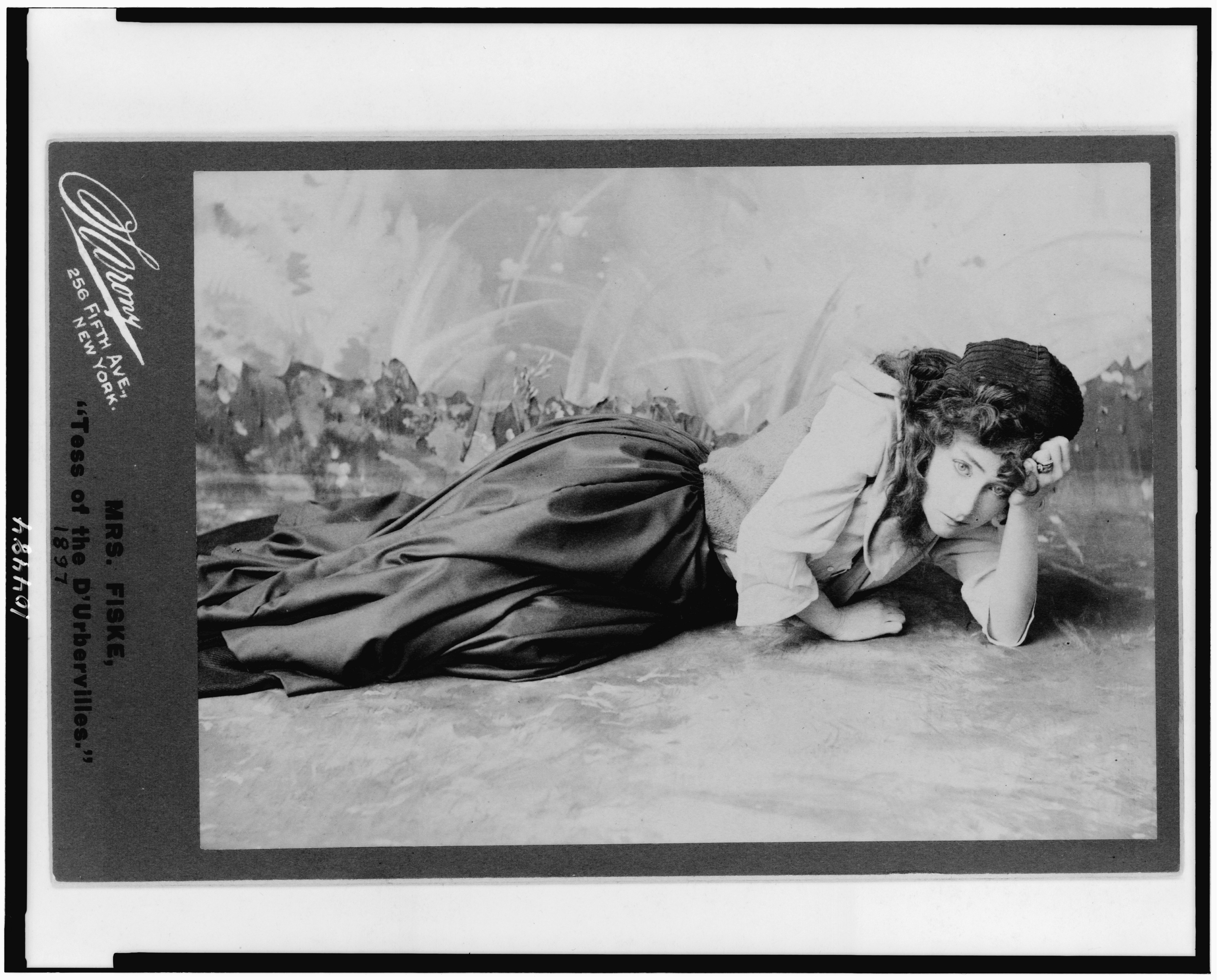 Title: Mrs. Fiske, "Tess of the D'Ubervilles" / Sarony, New York. Abstract/medium: 1 photoprint on cabinet card.